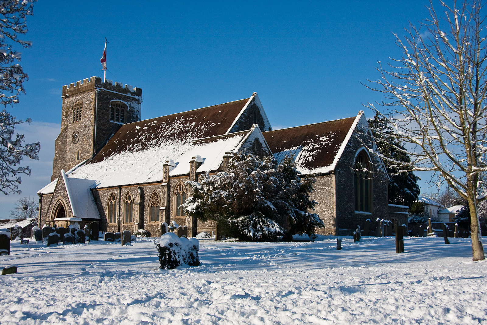 St Mary's parish church, Thatcham, Berkshire, seen from the southeast in snow